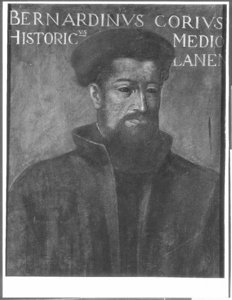 Portrait of Bernardino Corio (1459-1519)